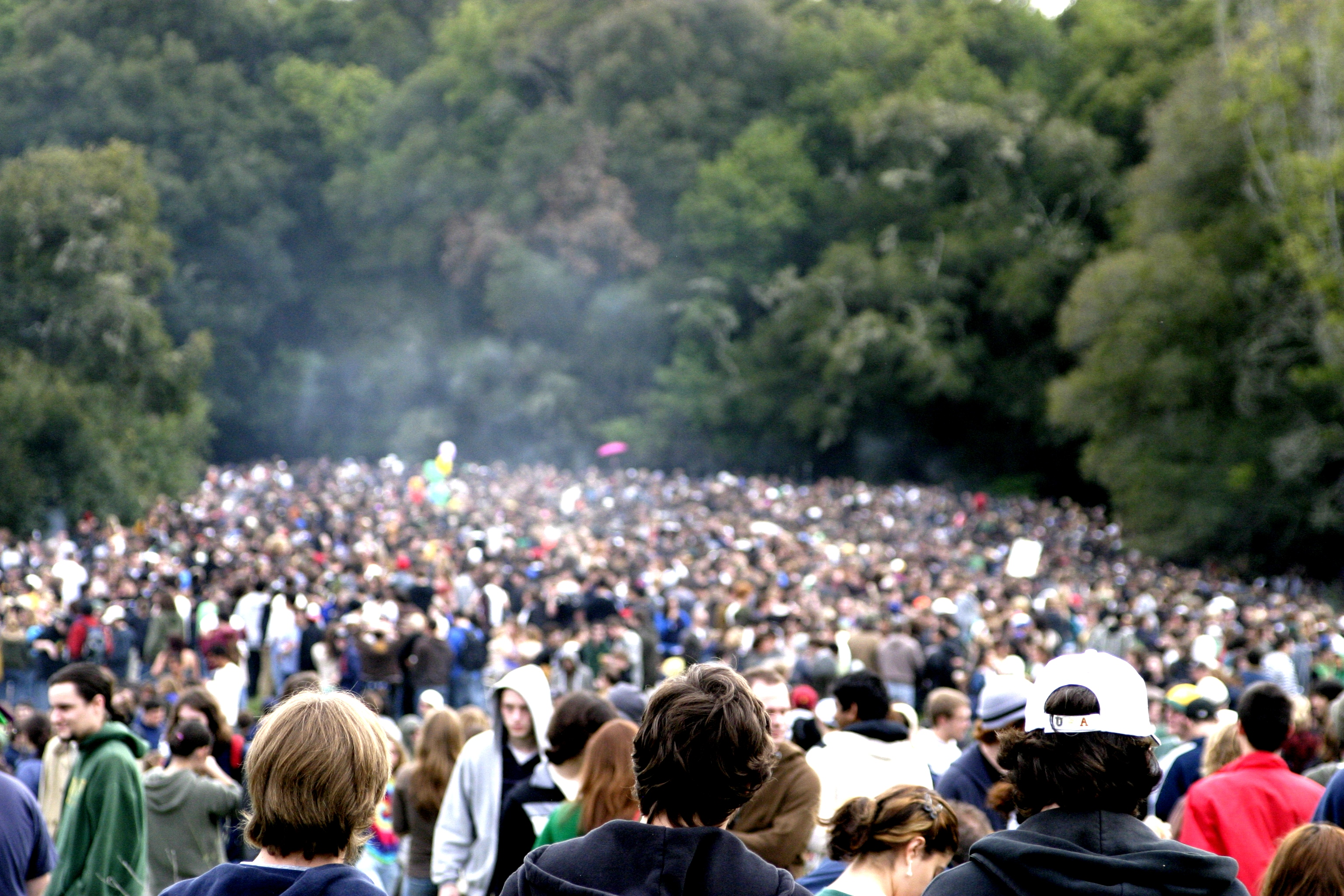 Santa Cruz 4/20 celebration at Porter Meadow on UCSC Campus Sroalf 22:34, 24 April 2007 (UTC)